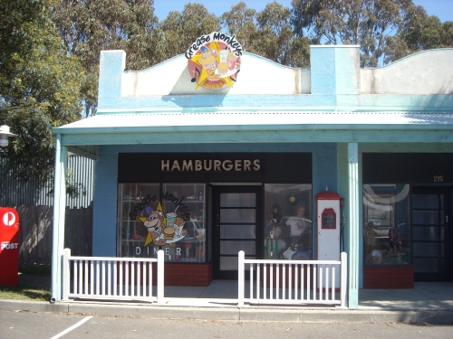 Photo of Grease Monkeys from TV show, Neighbours.